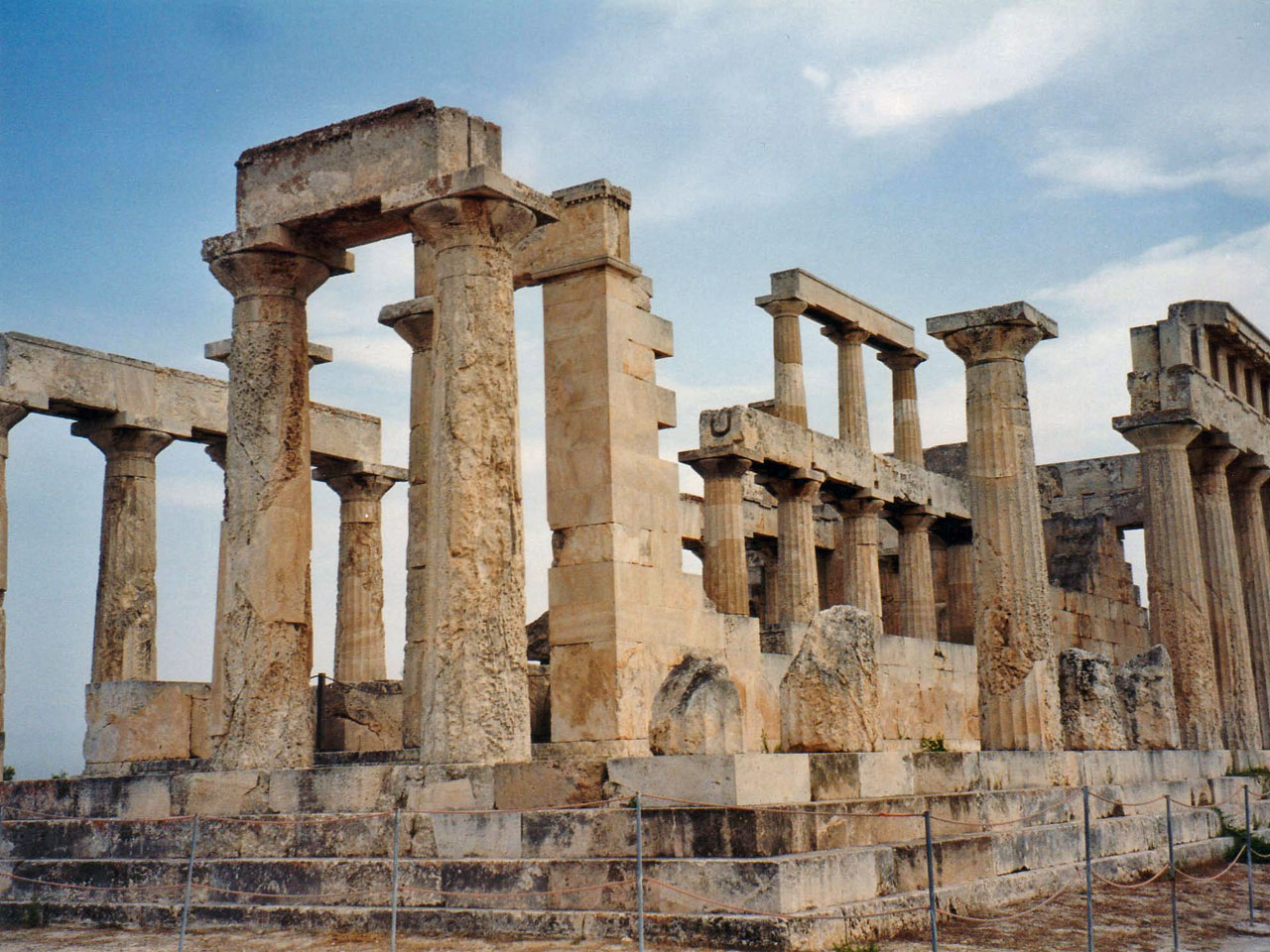 View of the superimposed Doric columns which make this temple special.